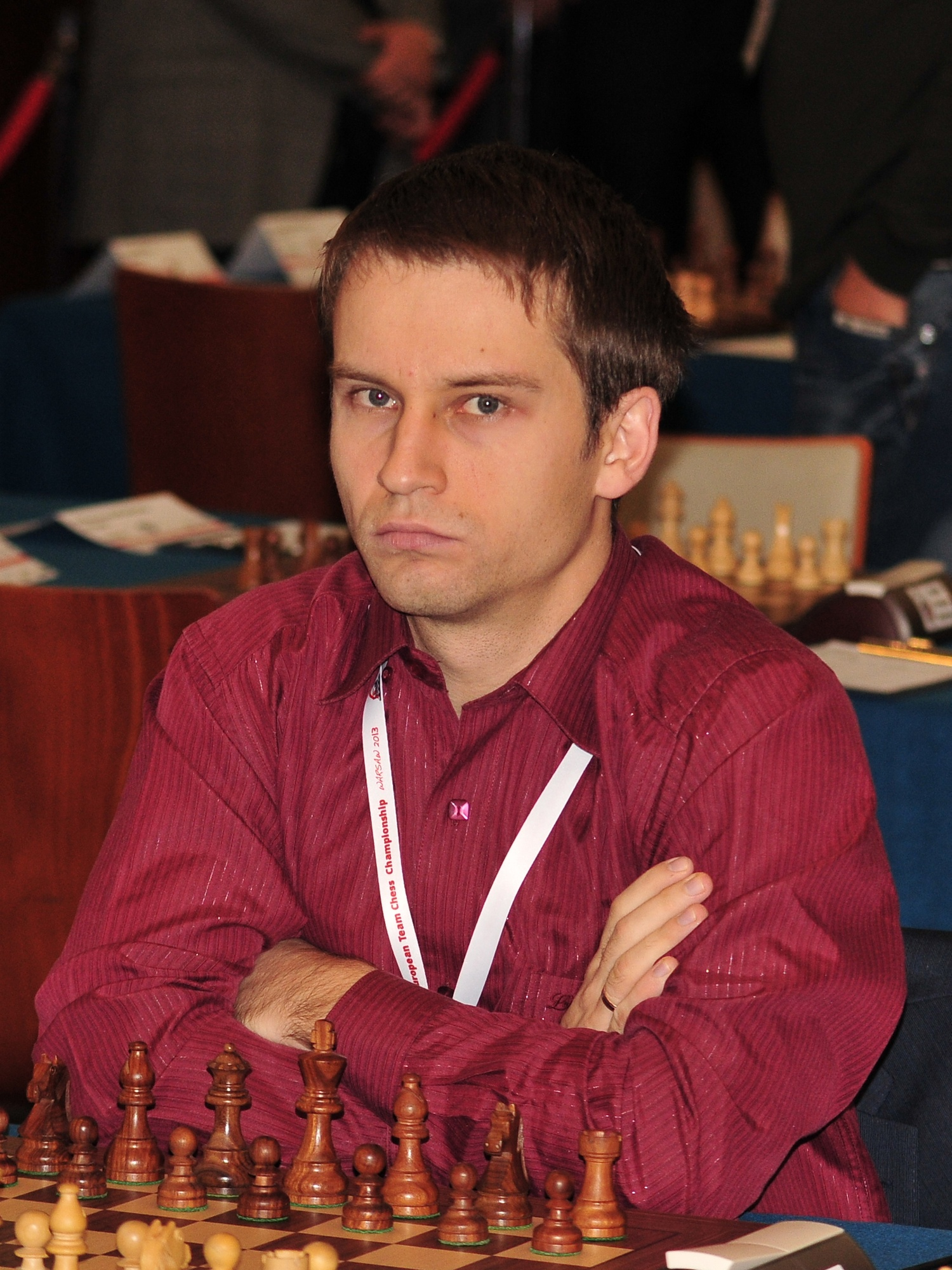 GM Andrei Volokitin, European Chess Team Championship Warsaw 2013